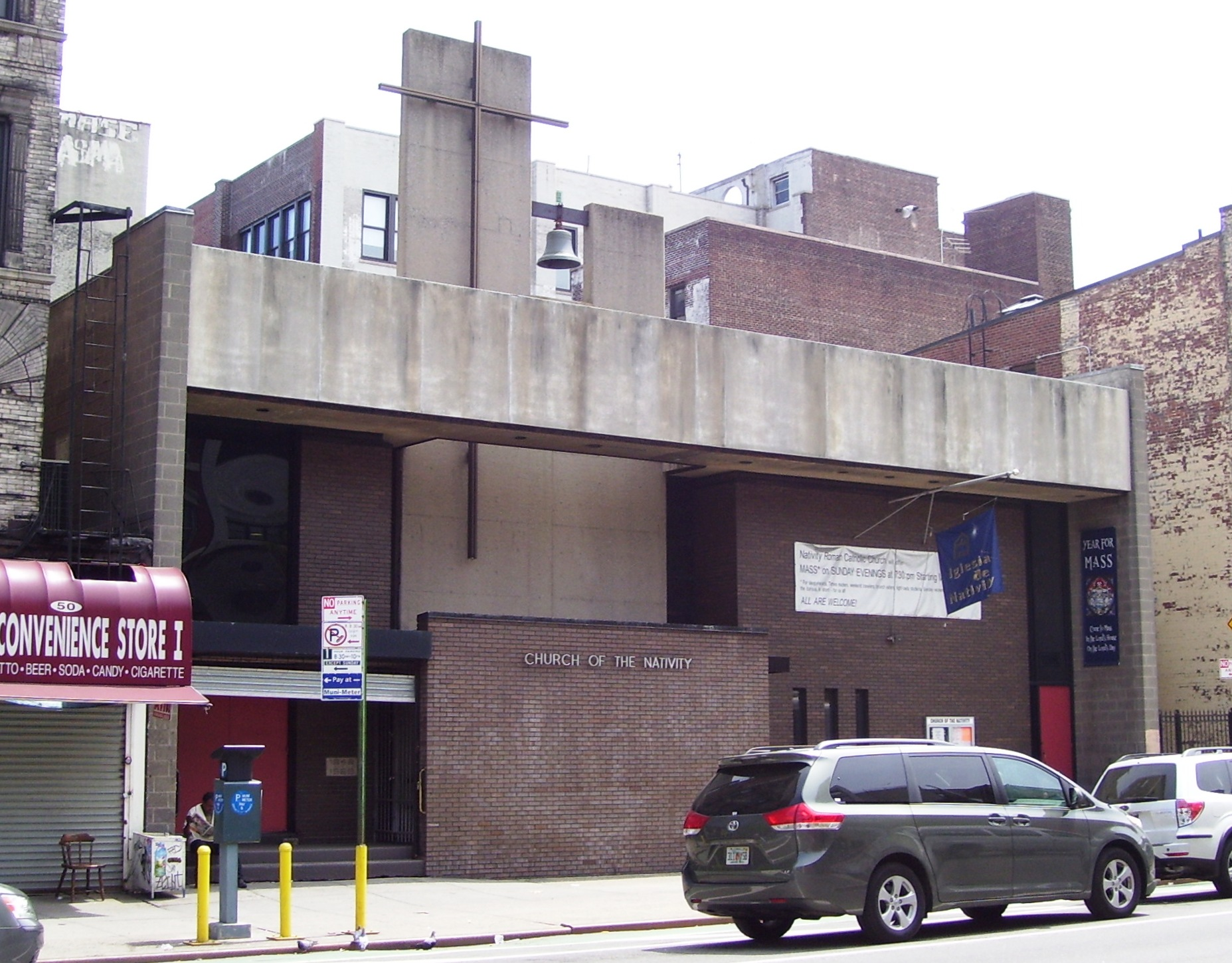 The Church of the Nativity at 44 Second Avenue between 2nd and 3rd Streets in the East Village neighborhood of Manhattan, New York City, was built in 1970, replacing an 1832 Greek Revival church originally built as the Secon Avenue Presbyterian Church, and sold in 1842 to become the Roman Catholic Church of the Nativity. The design of the original church is attributed to Alexander Jackson Davis, James H. Dakin and James Gallier of the firm of Town & Davis. The modern replacement was designed by Genovese & Maddalene. The new building has been called "Starkly institutional" and "a modern architectural cartoon." (Sources: From Abyssinian to Zion (2004) and AIA Guide to NYC (4th ed.))